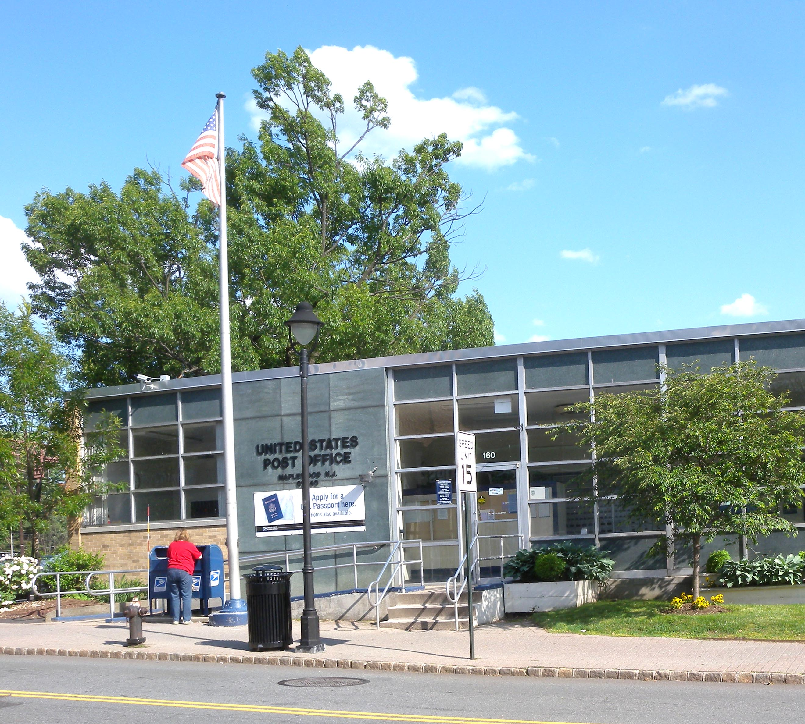 Looking east at Maplewood Post Office 07040 on a mostly sunny afternoon.